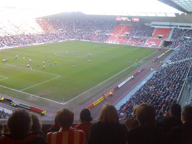 Photo taken from the upper North West corner of the Stadium of Light in a Football League Championship game between Sunderland A.F.C. and Southend United F.C. on February 17th 2007.